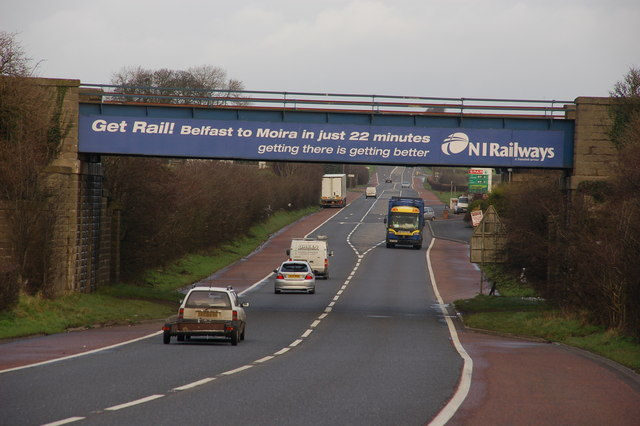 Railway bridge near Moira This bridge carries the Belfast-Portadown/Dublin railway across the Moira-Nutt’s Corner road. The advertising is not inaccurate. The time quoted is for a train stopping only at Lisburn on the journey from Belfast Gt. Victoria Street. Most trains, however, makes eight stops and complete the journey in 31 minutes.